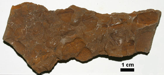 Devonian Foreknobs Formation containing abundant Mucrospirifer brachiopods, from near upper reservoir of Bath County Pumped Storage Station, Bath County, Virginia. Collected 2002.